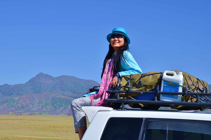 Hong Chen's Desk is on the Road